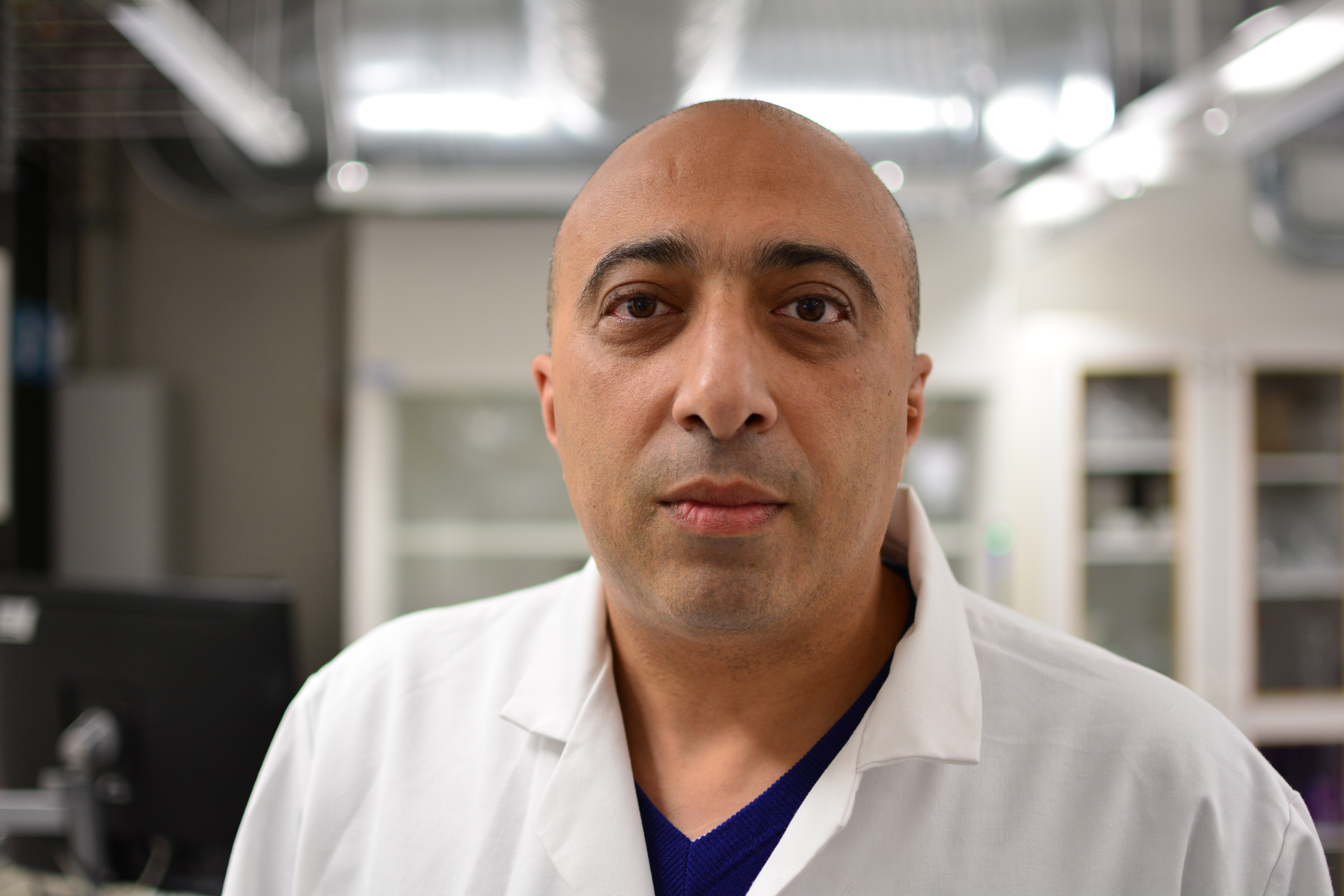 Bruno G. Pollet